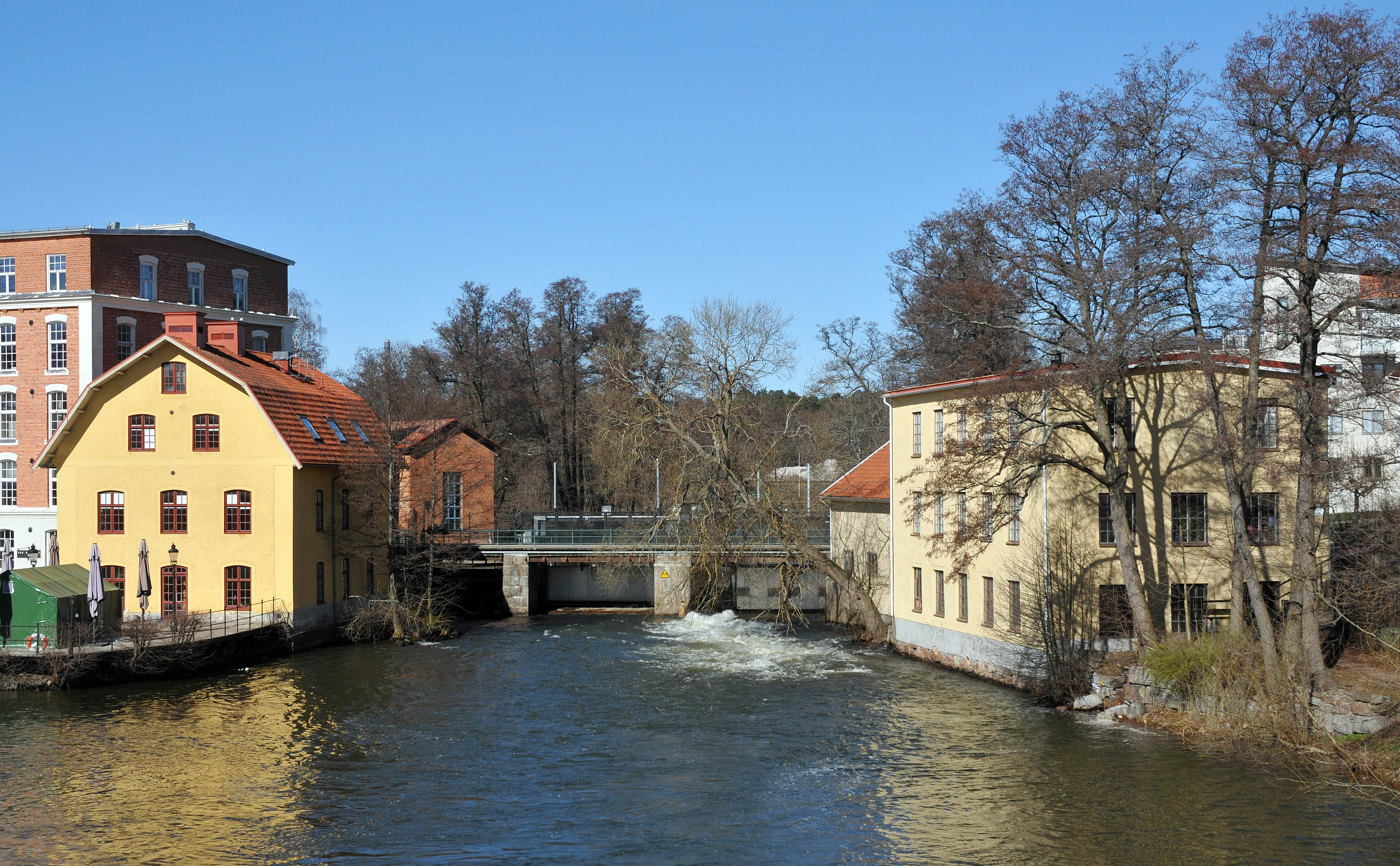 The fall is a waterfall in Nyköpingsån. The fall is about 2.5 meters high and has been used as a power source since the Middle Ages to, among other things, mills, blast furnace, iron bar hammer.